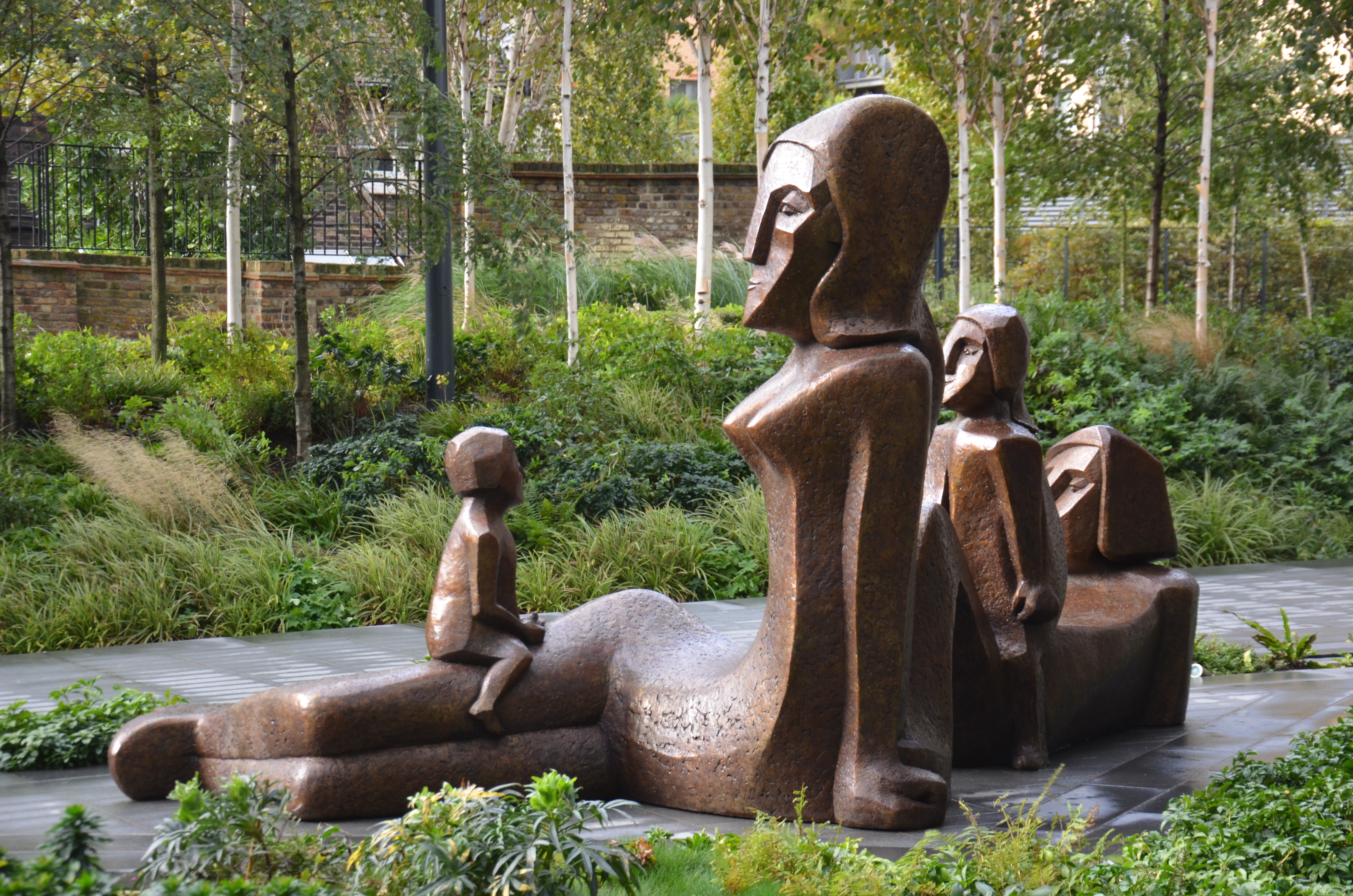 A Family in Residence, bronze, 2012, by Ivan Murray, Neo Bankside Apartments, Holland Street, Southwark, London, United Kingdom